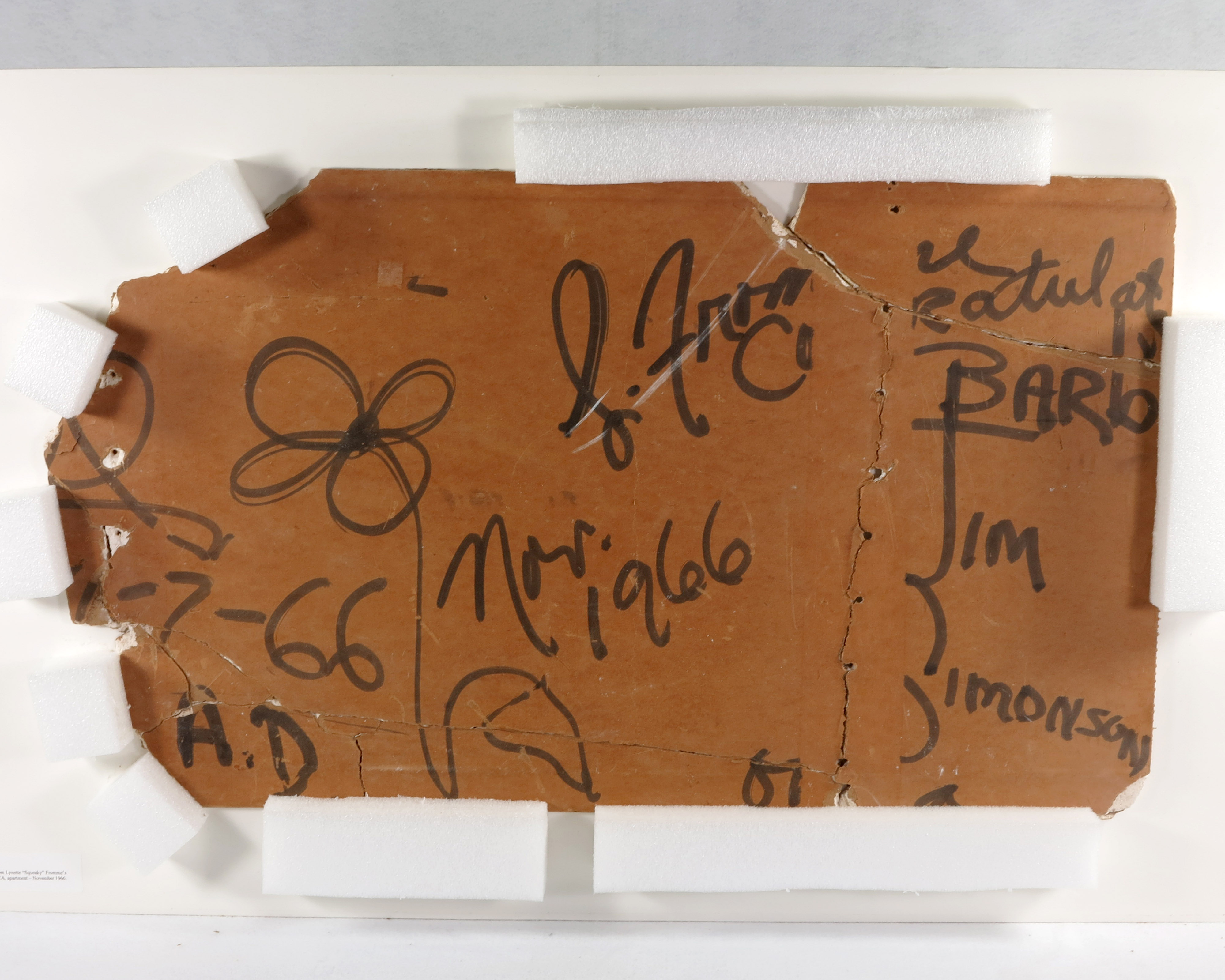 This is one of three sections from a wall in Fromme’s Redondo Beach apartment, where she lived when she began the downward spiral that would eventually lead to her assassination attempt on President Gerald R. Ford.